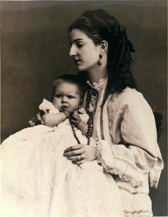 Queen Margherita of Italy and her only child (later King Victor Emmanuel III of Italy)